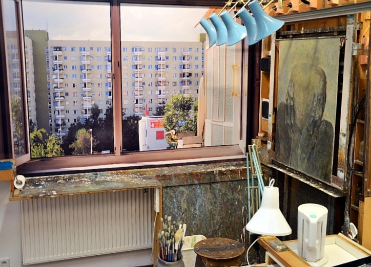 Beksiński Gallery in Sanok